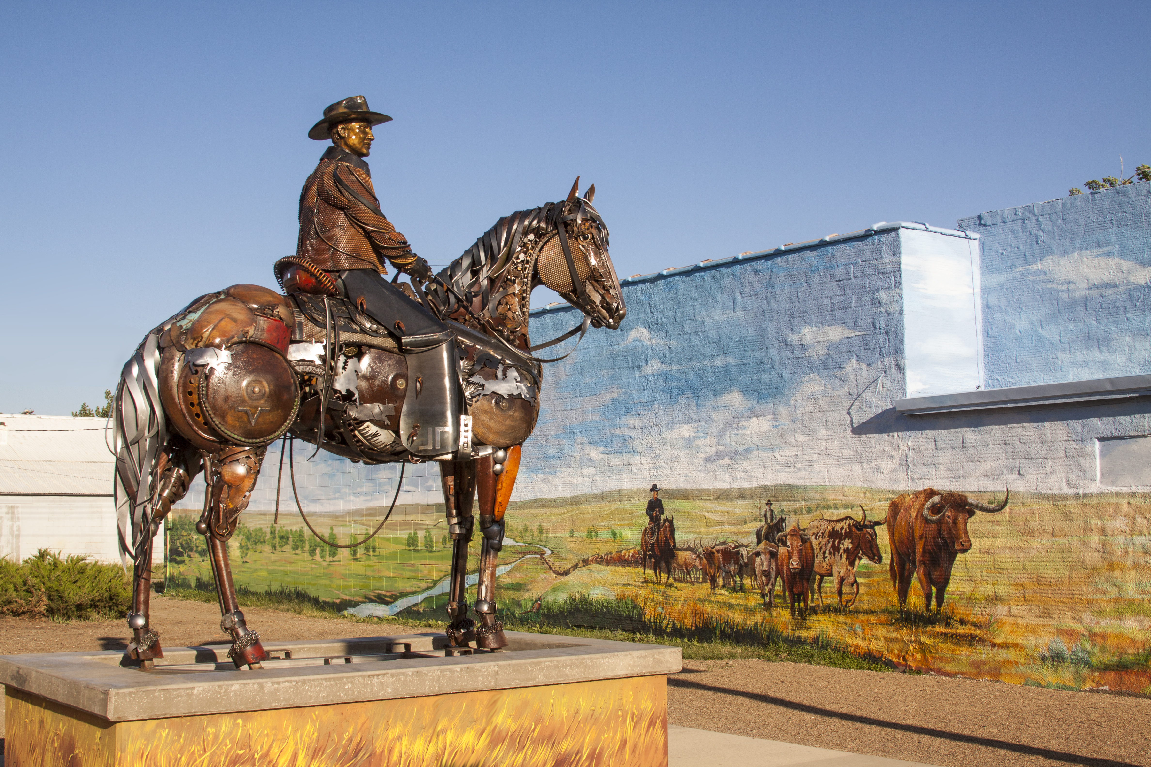 Boss Cowman Square was build in honor of Ed Lemmon on main street in Lemmon, SD.